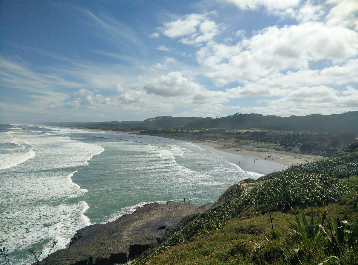 This is from the gannet colony outlook